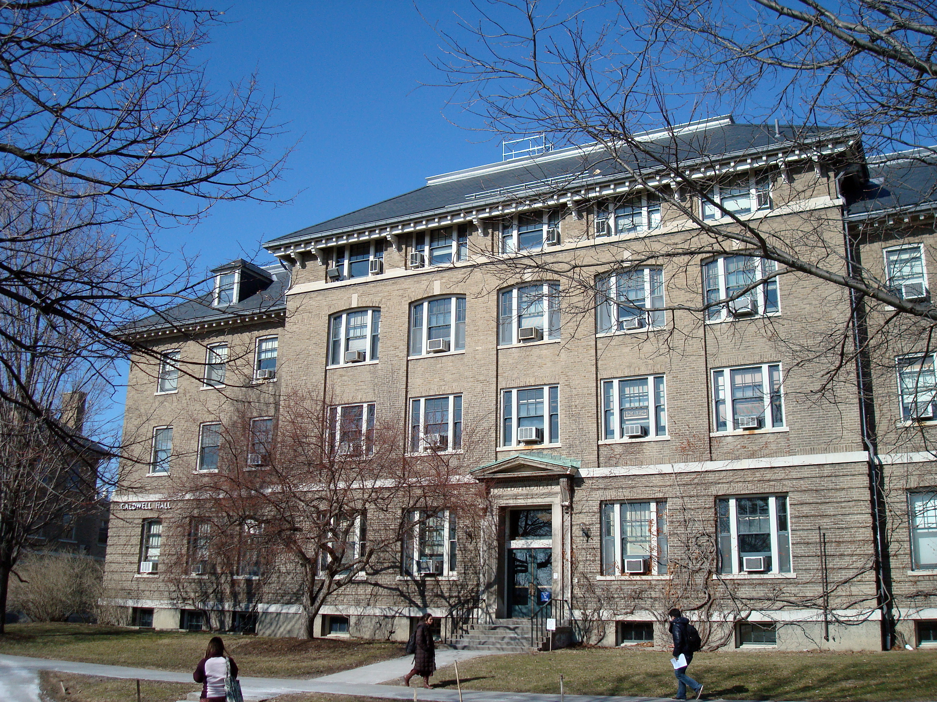 Caldwell Hall at Cornell University.